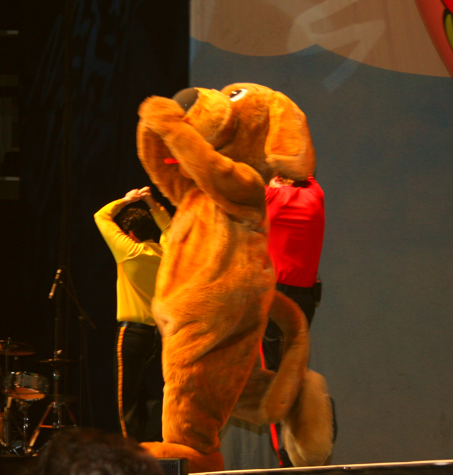 Wags the Dog of The Wiggles Live @ the MCI Center - Nov. 8, 2007 Photo by: Anthony Arambula